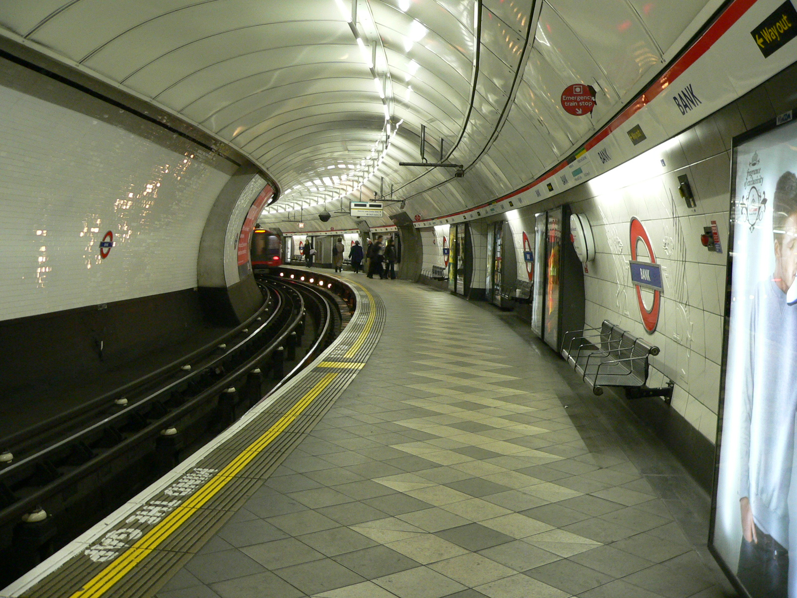 The Central Line platforms at Bank station is on one of the sharpest curves on the entire London Underground network.